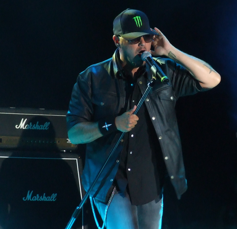 The American heavy metal vocalist Tim "Ripper" Owens performing with the tribute formation DIO Disciples at Kavarna Rock Fest 2012, Bulgaria.